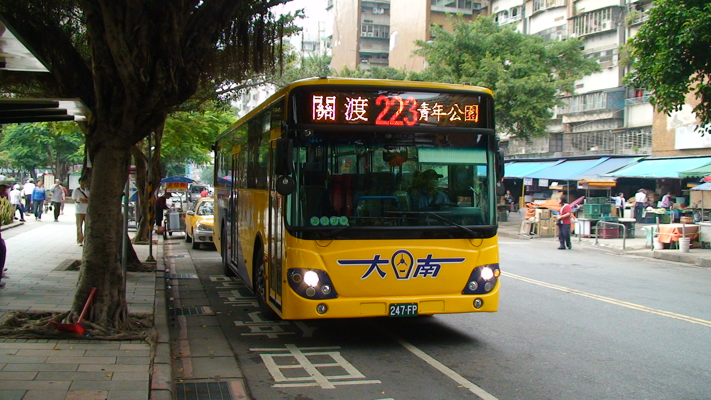 Danan Bus, 2009 Daewoo BC211MA Bus, license No. 247-FP, TPE Bus No. 223